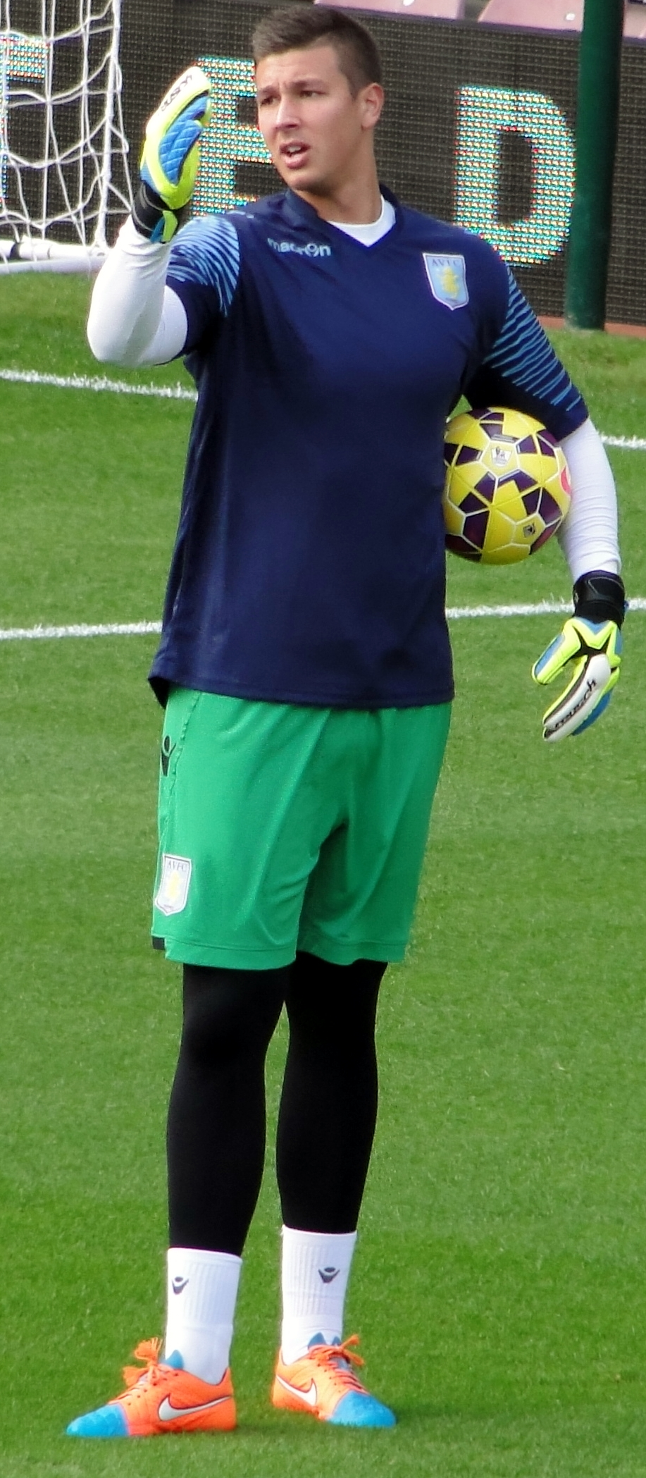 Aston Villa goalkeeper, Benjamin Siegrist, warming up before their Premier League game against West Ham United at the Boleyn Ground, November 2014